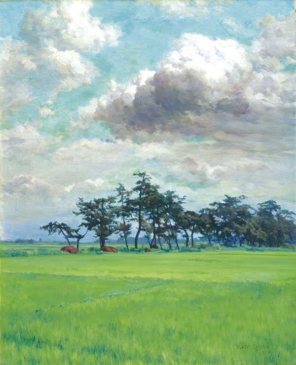 Summer Clouds, by Wada Eisaku (Toyota)